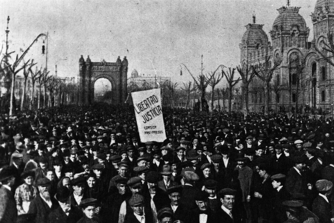 Demonstration during the Tragic Week in Spain.